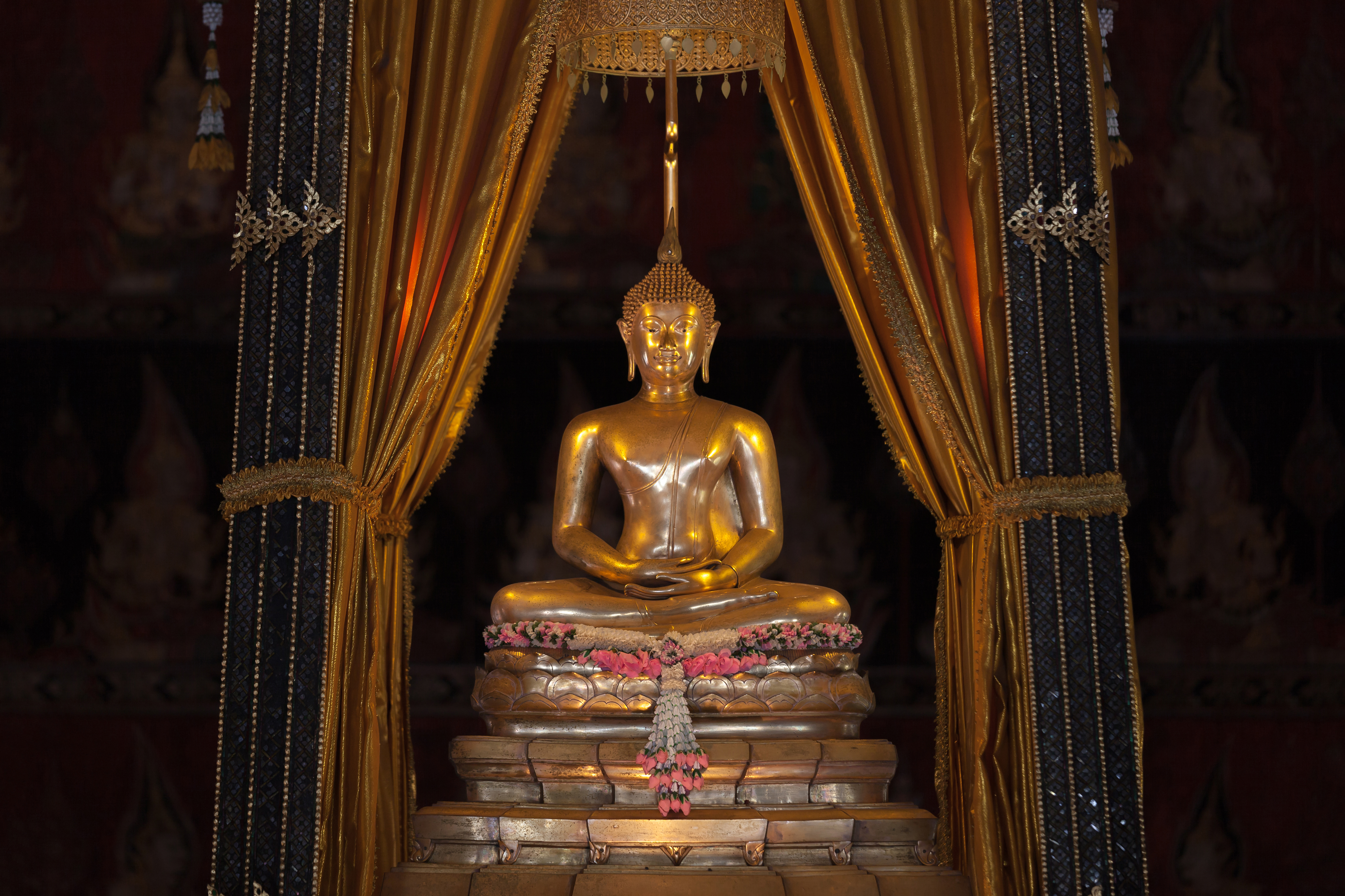 Phra Phuttha Sihing, an ancient buddharupa since Sukothai era, located in Phra Thinang Phuttai Sawan (Front Palace), Bangkok National Museum.